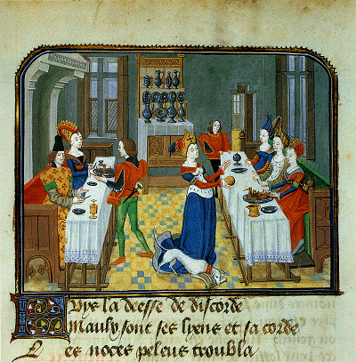 The Wedding of Peleus and Thetis Miniature in Jean Miélot's adaptation of Christine de Pisan, L'Epître d'Othéa , ca. 1460. The source webpage offers the following description (translated to English): Discordia (Eris, the goddess of the twist) throws a golden apple for the goddesses present to disturb the wedding of Peleus and Thetis. Remarkable are the linen tablecloth with embroidered edge, the displayed dishes and the benches on which the guests sit. Miniature in Jean Miélot's adaptation of Christine de Pisan, L'Epître d'Othéa , ca. 1460. Brussels, Royal Library of Belgium, Ms. 9392, fol. 63v